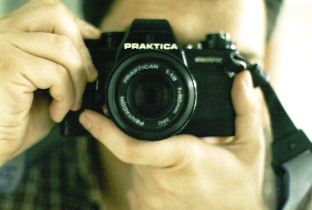 Praktica BC1 photo camera. Taken in 2005. (that's me holding it)